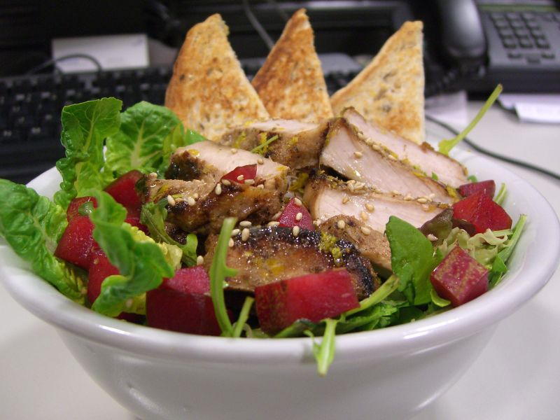 Leftover Pork Chop Salad with Cubed Plums with a simple vinaigrette. The plums were from Raymond's backyard, nice and sweet!